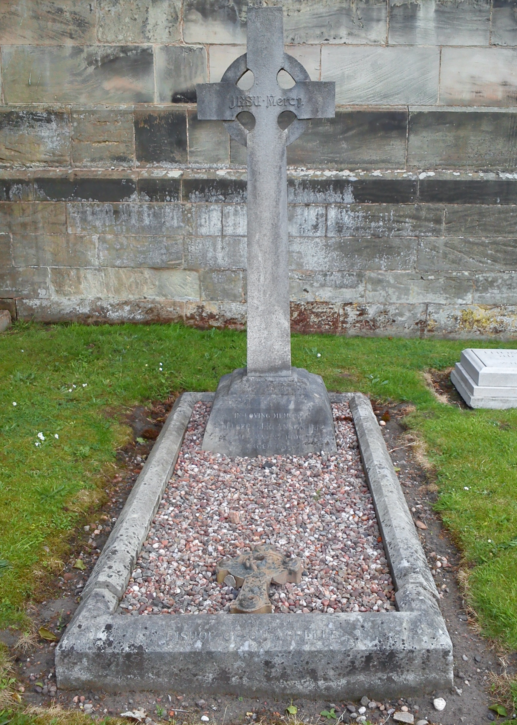 Colwich, Staffordshire - St Michael and All Angels Church - grave of Adelbert Anson (1840–1909), first Bishop of Qu'Apelle in Canada